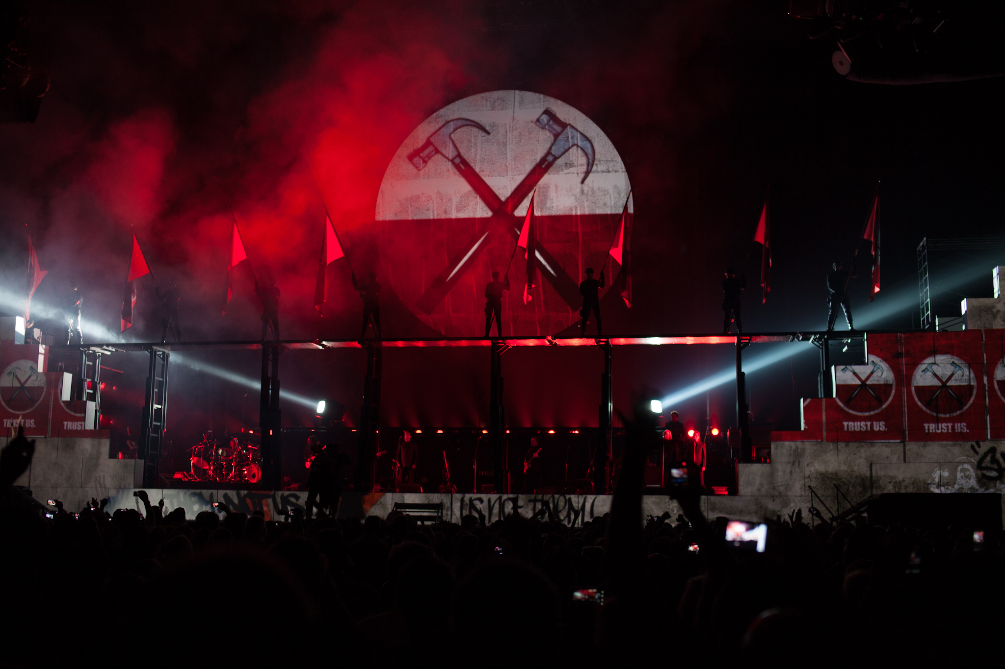 The Roger Waters Band, with, Kilminster, White, Joyce, Pat Lennon, Mark Lennon, Kip Lennon, Wyckoff, Smith, Harry Waters, Carin, and Broad. The Wall Live concert tour by Roger Waters, formerly of Pink Floyd, at BankAtlantic Center, Sunrise, Miami, Florida, June 15th, 2012. The tour is the first time the Pink Floyd album The Wall has been performed in its entirety by the band or any of its former members since Waters performed the album live in Berlin 21 July 1990. Ref: The Roger Waters Band, with, Kilminster, White, Joyce, Pat Lennon, Mark Lennon, Kip Lennon, Wyckoff, Smith, Harry Waters, Carin, and Broad. Songs:In the Flesh | The Thin Ice | Another Brick in the Wall (Part 1) | The Happiest Days of Our Lives | Another Brick in the Wall (Part 2) | Another Brick in the Wall (Part 2) Reprise The Ballad Of Jean Charles de Menezes. | Mother | Goodbye Blue Sky | Empty Spaces | What Shall We Do Now? | Young Lust | One of My Turns | Don't Leave Me Now | Another Brick in the Wall (Part 3) | The Last Few Bricks | Goodbye Cruel World | Hey You | Is There Anybody Out There? | Nobody Home | Vera | Bring the Boys Back Home | Comfortably Numb | The Show Must Go On | In the Flesh | Run Like Hell | Waiting for the Worms | Stop | The Trial | Outside the Wall Camera: Canon EOS 5D Mark II 8 ISO: 400